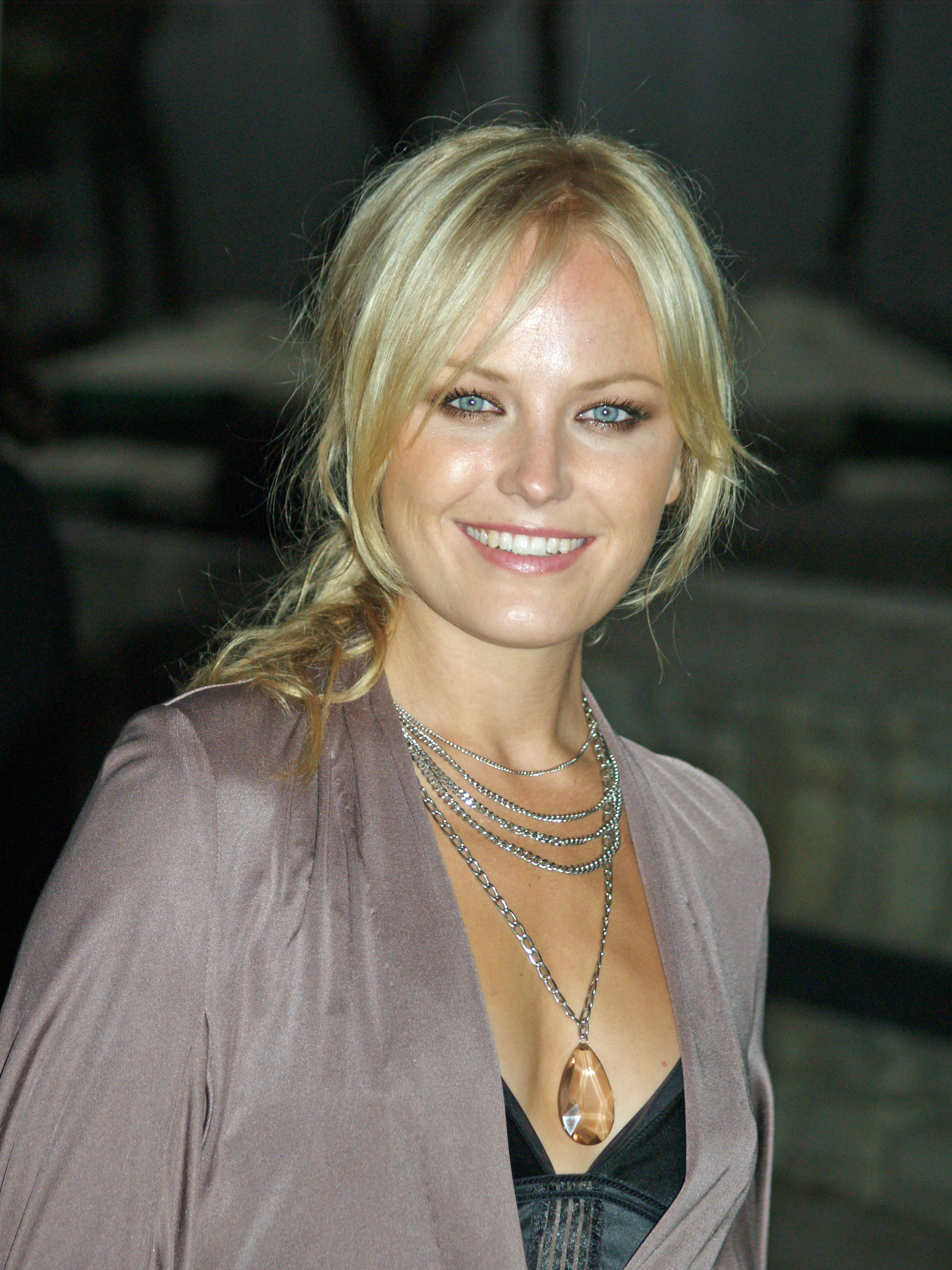 Malin Akerman at the 2008 Mercedes-Benz Fashion Week in New York City.